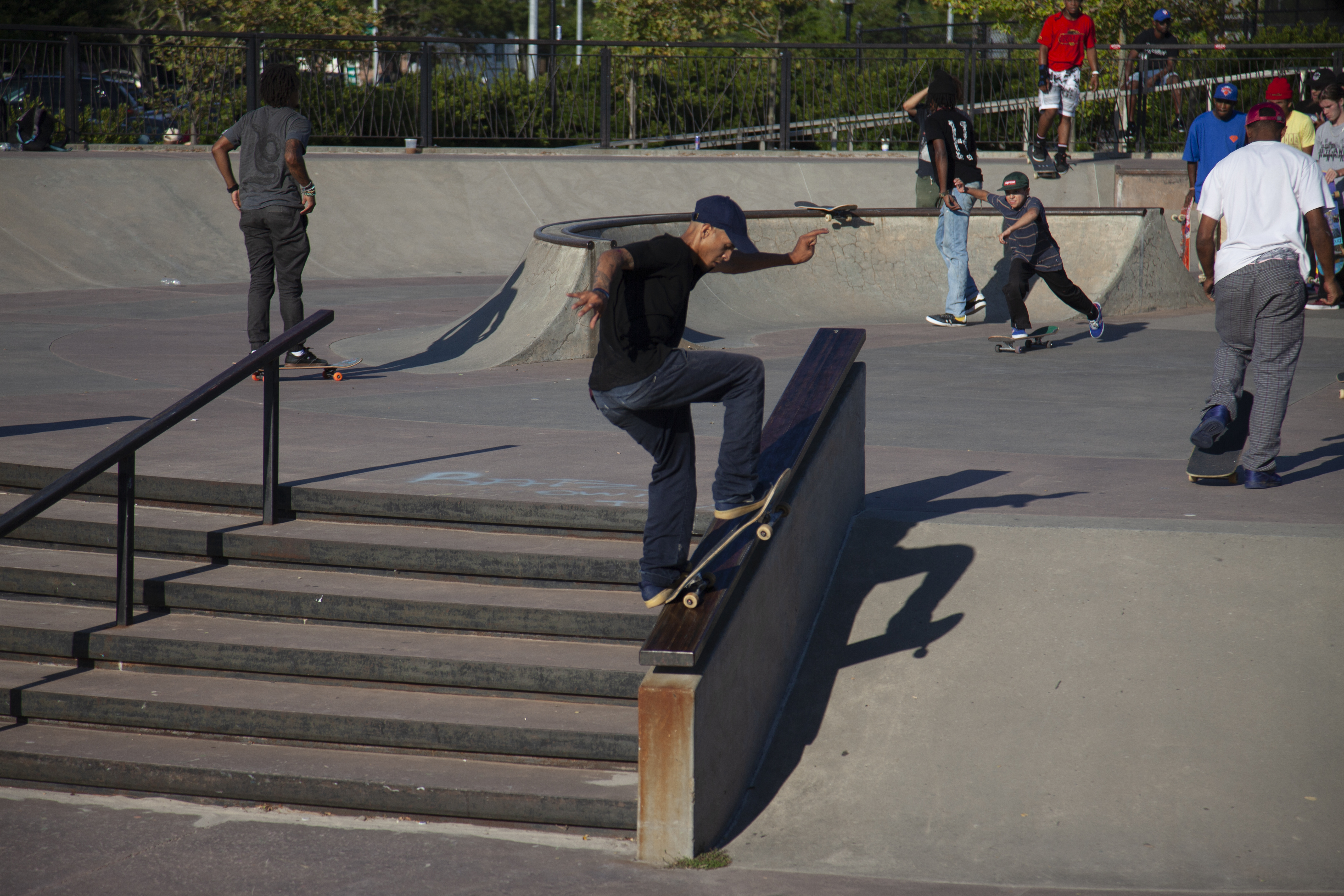 Starlin Polanco with a frontside bluntslide at Far Rockaway Skatepark - 2019 - Battle of the Beach 2 contest